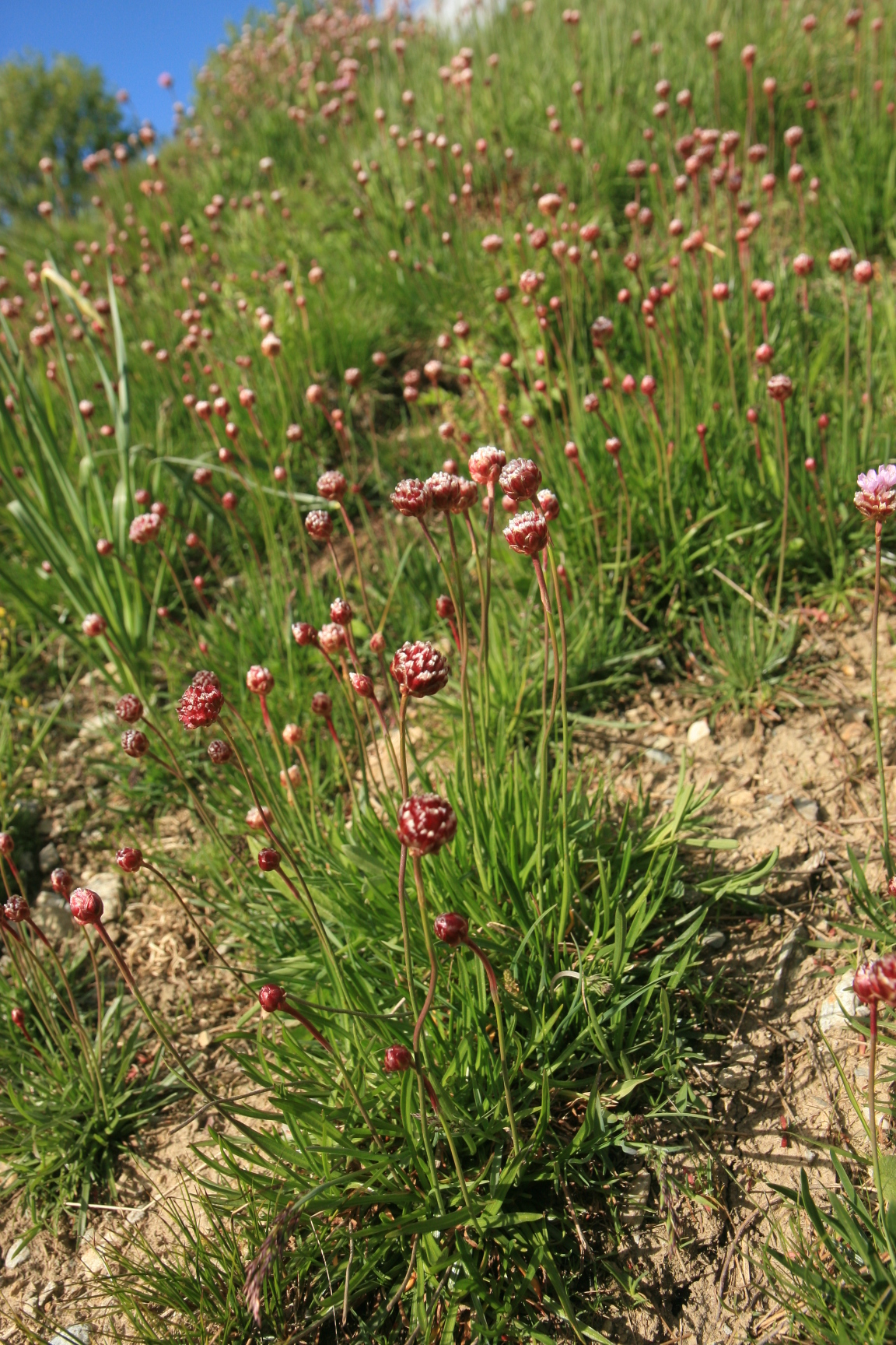 Armeria alpina, Pass of Lautaret (Hautes-Alpes, 05, France)